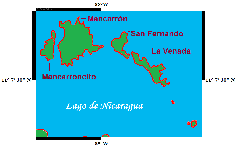 A map of the Solentiname Islands in Lake Nicaragua